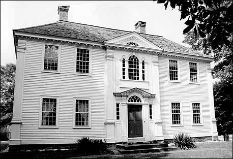 Prudence Crandall Museum — front façade. Darian (Fairfield County, Connecticut) This image or media file contains material based on a work of a National Park Service employee, created as part of that person's official duties. As a work of the U.S. federal government, such work is in the public domain in the United States. See the NPS website and NPS copyright policy for more information.